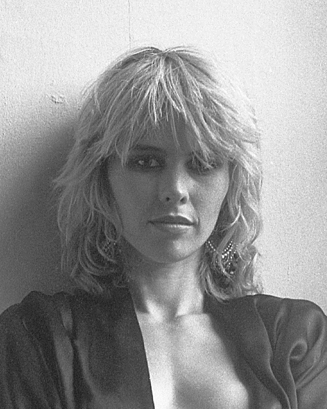 Donnette Thayer of Game Theory in Sacramento